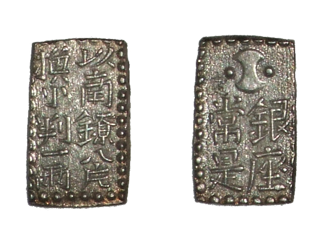 Bunsei-nanryo-2shu